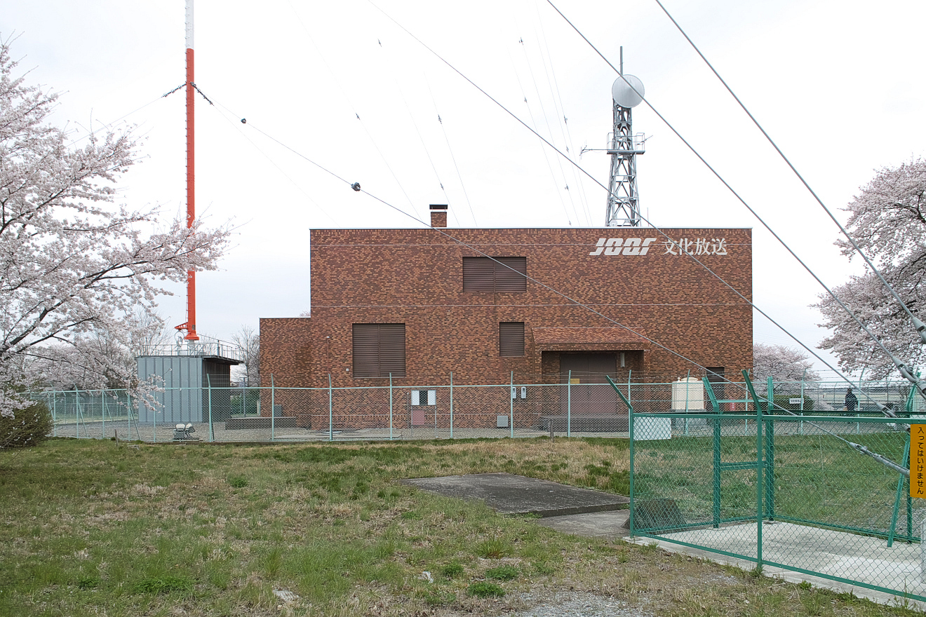 JOQR - Nippon Cultural Broadcasting inc. TX site (ex. JOAK) at Kawaguchi city, Saitama pref., Japan. 1134kHz 100kW AM stereo